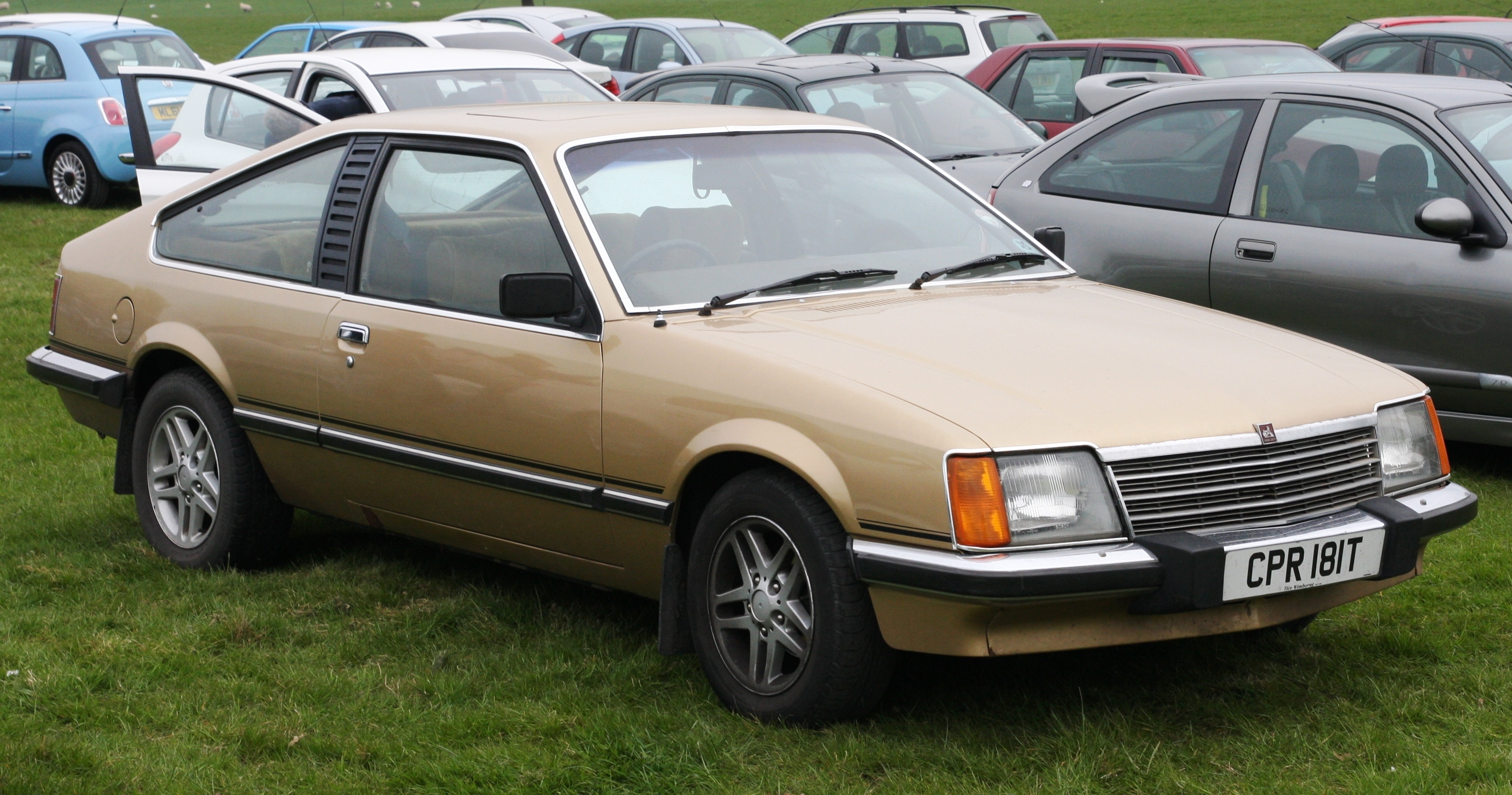 Vauxhall Royale coupé aka Opel Monza A rebadged for UK market. Note: the Holden badge instead of the Vauxhall badge on the front grille.